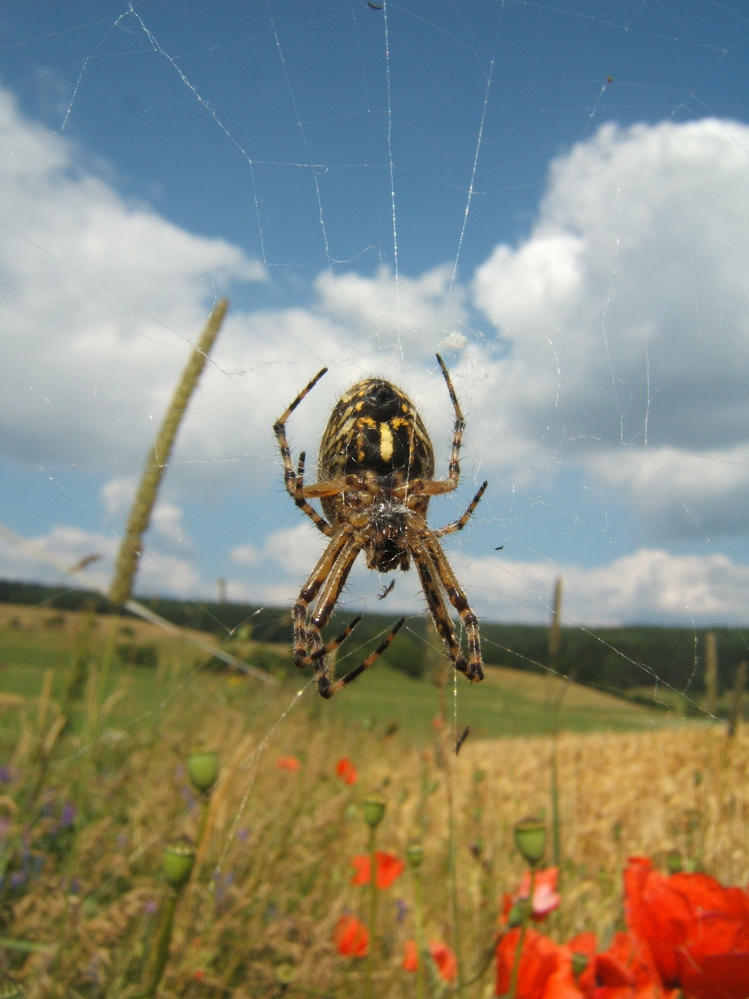 Araneus diadematus in Gethles, Thuringia, Germany shot on 02/07/2005